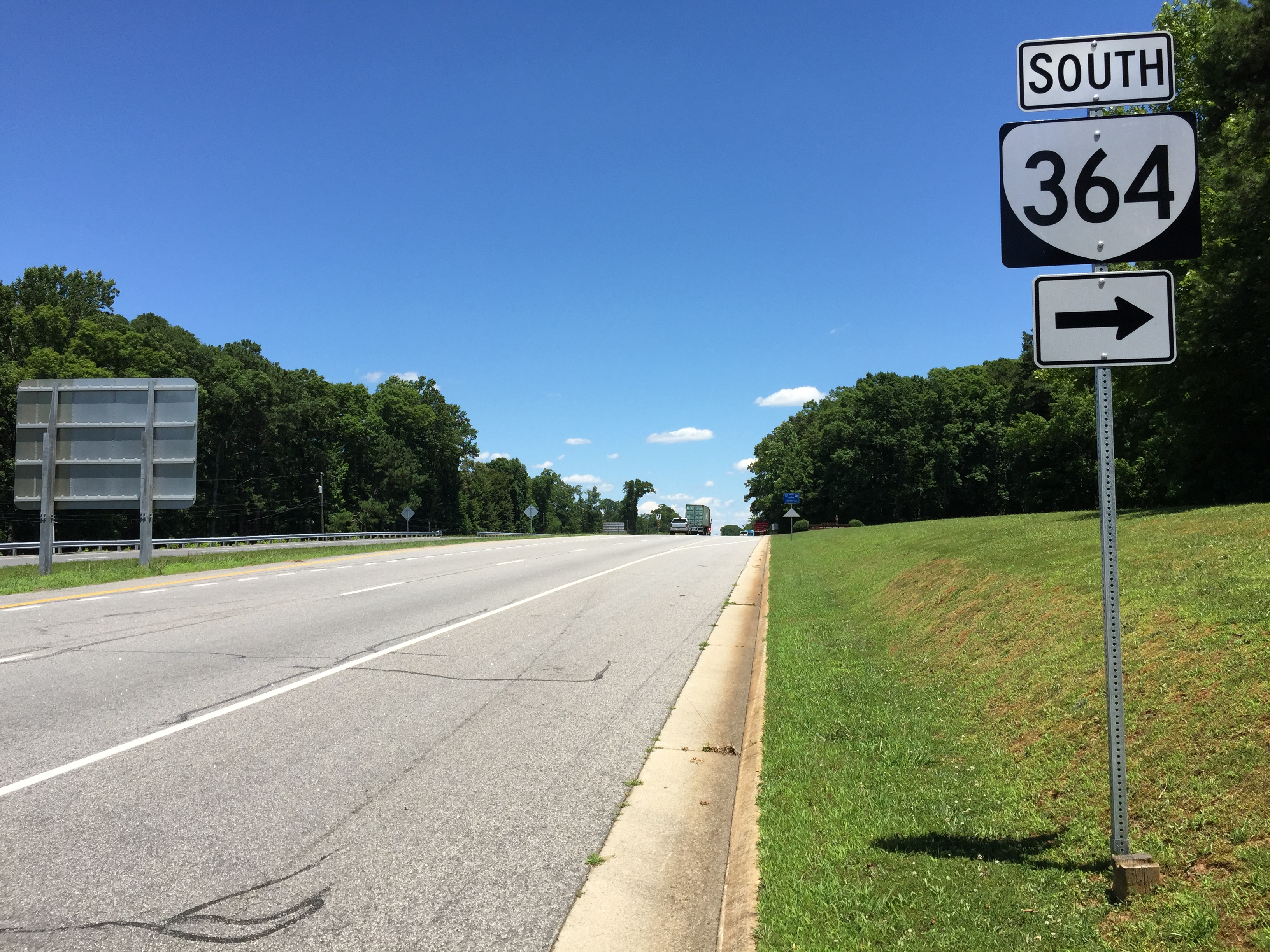 View east along U.S. Route 58 at Virginia State Route 364 (Occoneechee Park Road) at Occoneechee State Park in western Mecklenburg County, Virginia